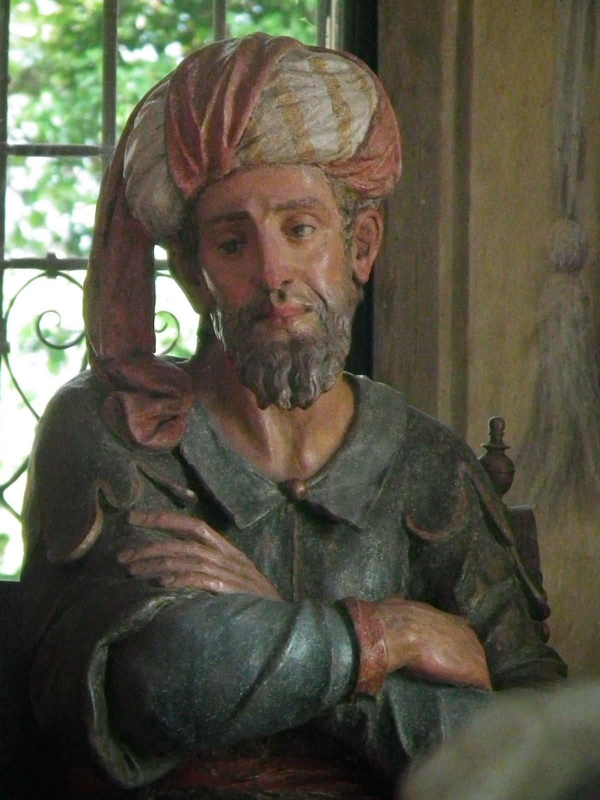 Chapel 5: Christ Among Doctors (Disputa di Gesù col dottori) Sacro Monte di Varese Native nameSacro Monte di VareseParent institutionSacri Monti of Piedmont and LombardyLocationVarese, Lombardy, ItalyCoordinates45° 51′ 37.3″ N, 8° 47′ 35.6″ E Established1604-1623 (Constructed)Web page control : Q1224490 VIAF: 242334001 UNESCO: 1068-004 GND: 7641777-3 BNF: 11980003j institution QS:P195,Q1224490